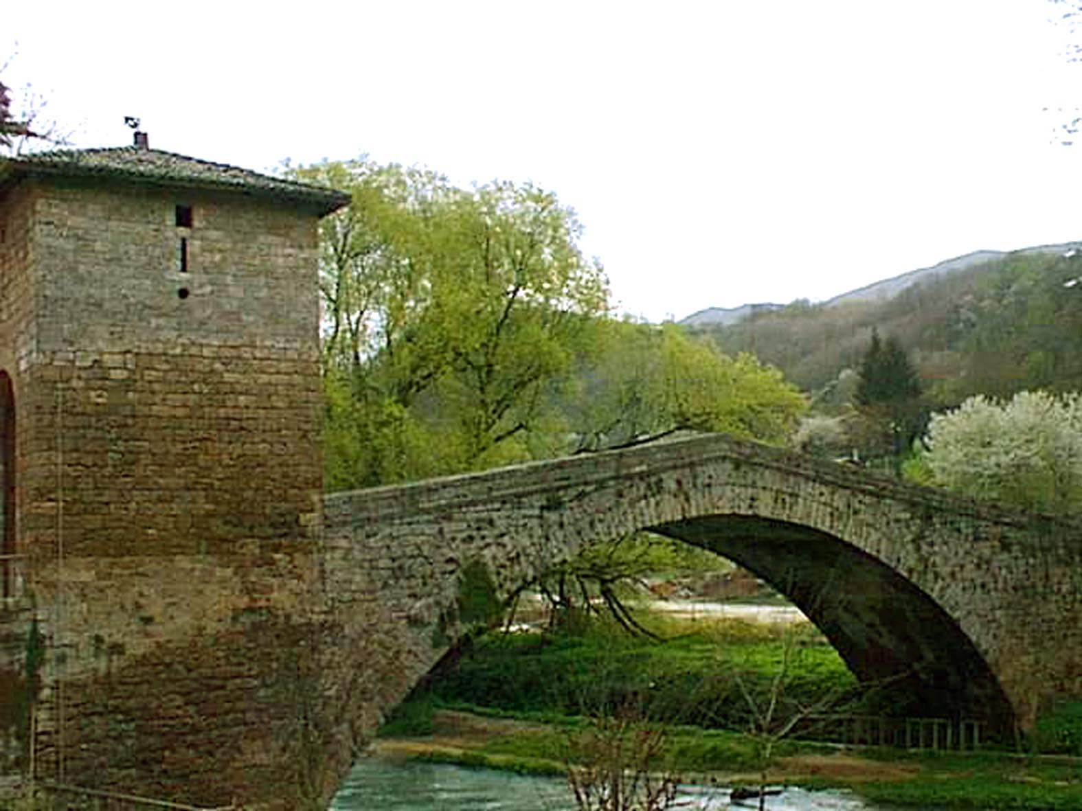 The medieval Ponte di San Francesco, Subiaco, Lazio, Italy